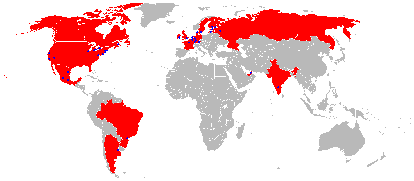 Aerosmith World Tour 2007 map